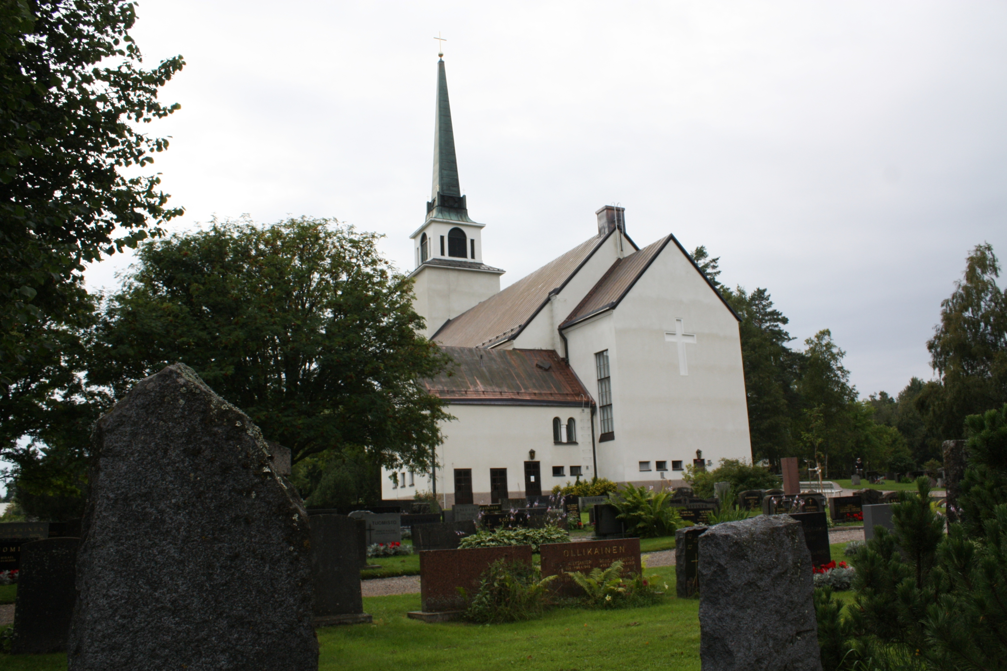 Ähtäri Church in Ähtäri, Finland (1937)